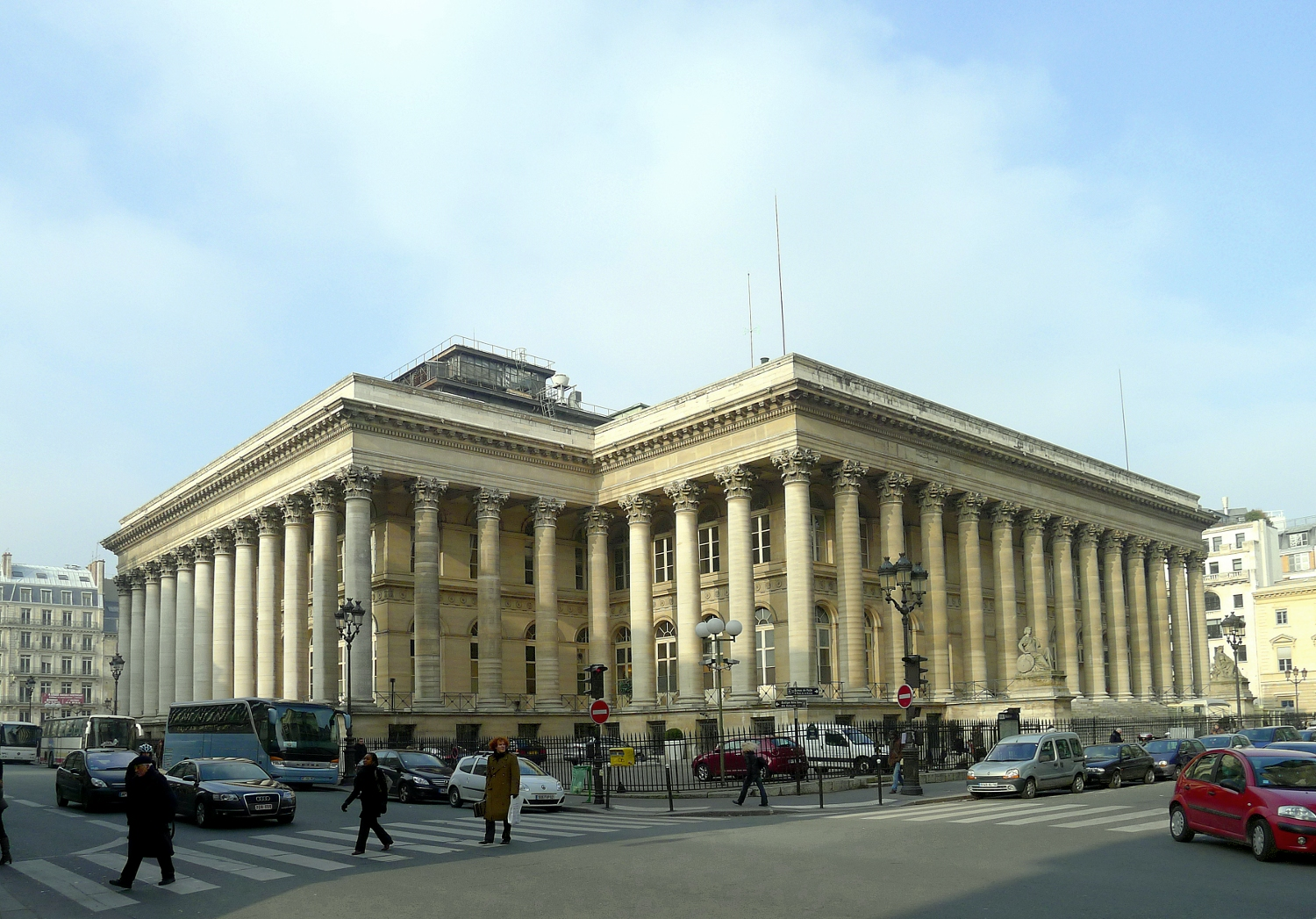 Bourse place - Paris